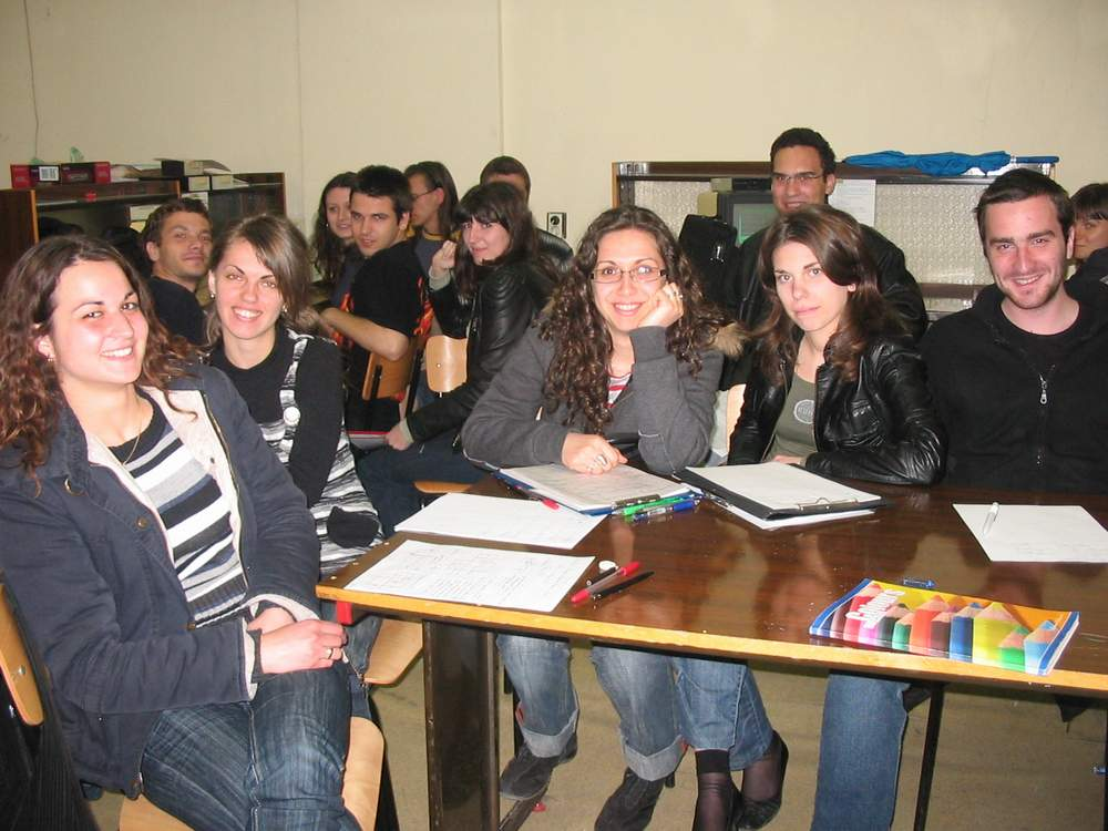 Students from group 67a, Faculty of Computer Systems, Technical University of Sofia